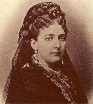 Maria Vittoria dal Pozzo – Queen of Spain